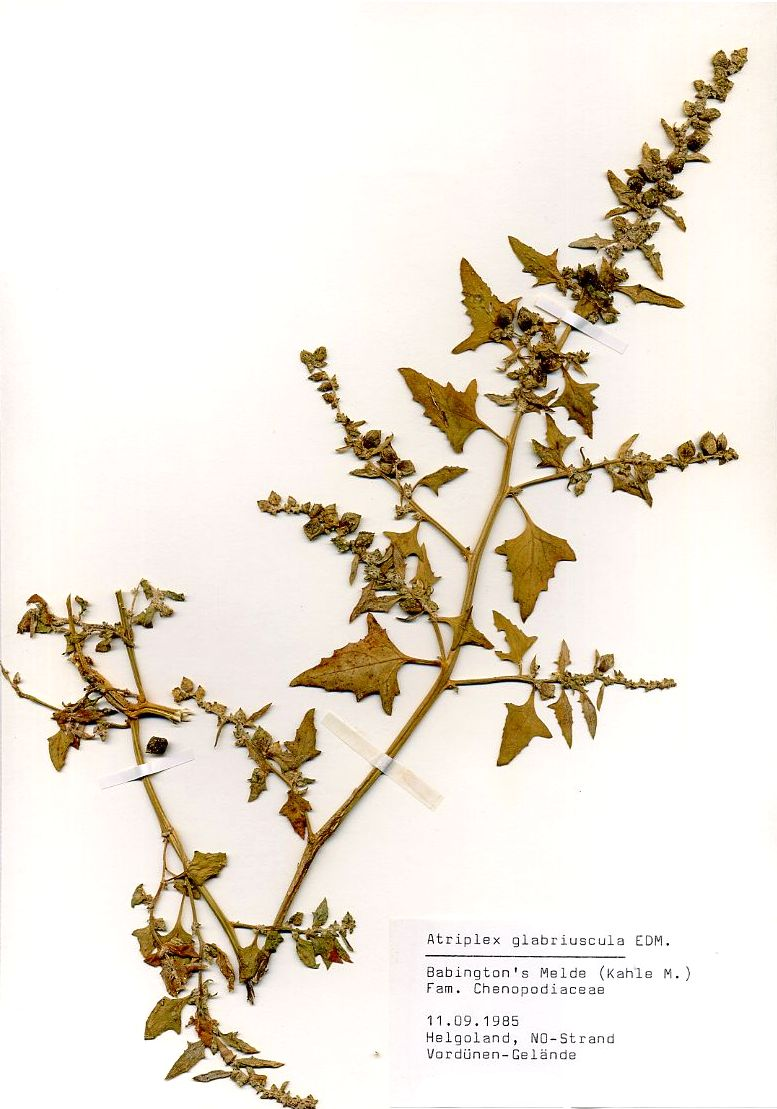 Atriplex glabriuscula Edmonston, herbarium sheet, collected at the northeastern shore of Helgoland island (Germany), 1985-09-11